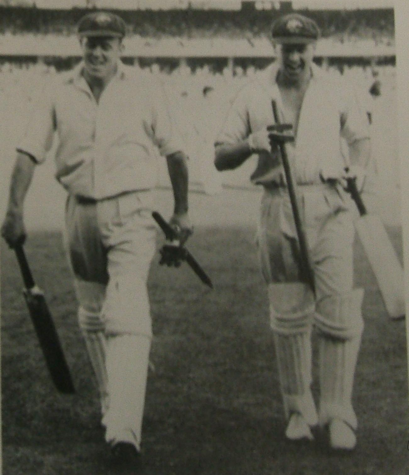 Bill Johnston and Doug Ring walk from the MCG in 1951-52 after their last wicket stand gives Australia victory over the West Indies